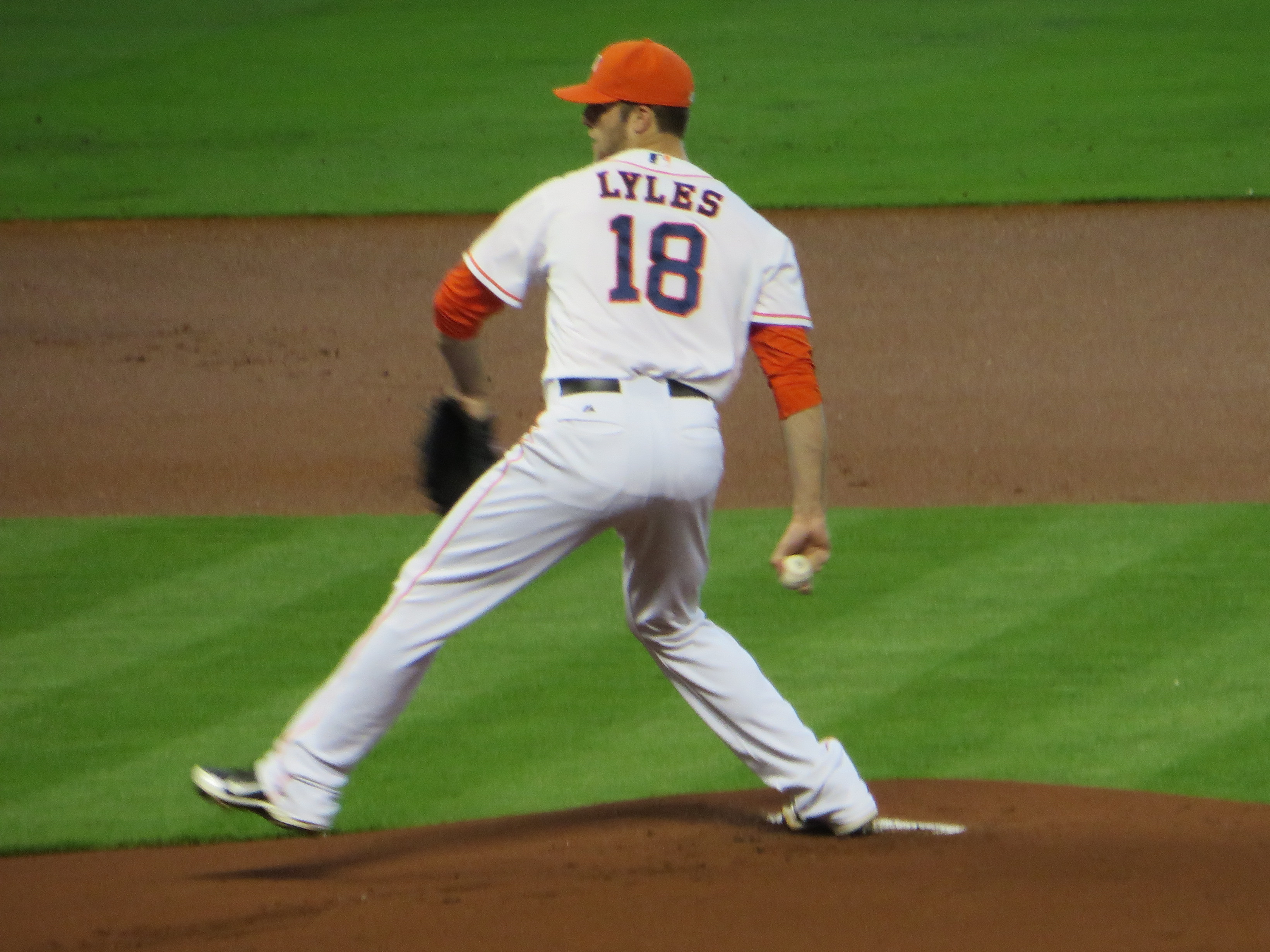 Houston Astros pitcher Jordan Lyles delivers a pitch on June 29, 2013 at Minute Maid Park.